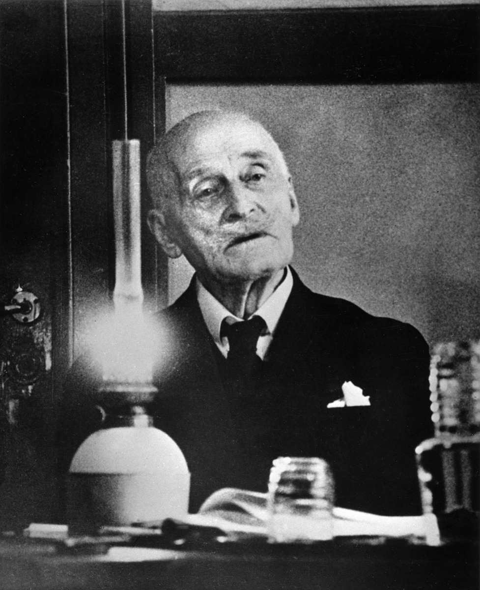 Knut Hamsun at court.